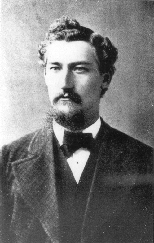 Carl Ruedi, M.D. (c. 1885)